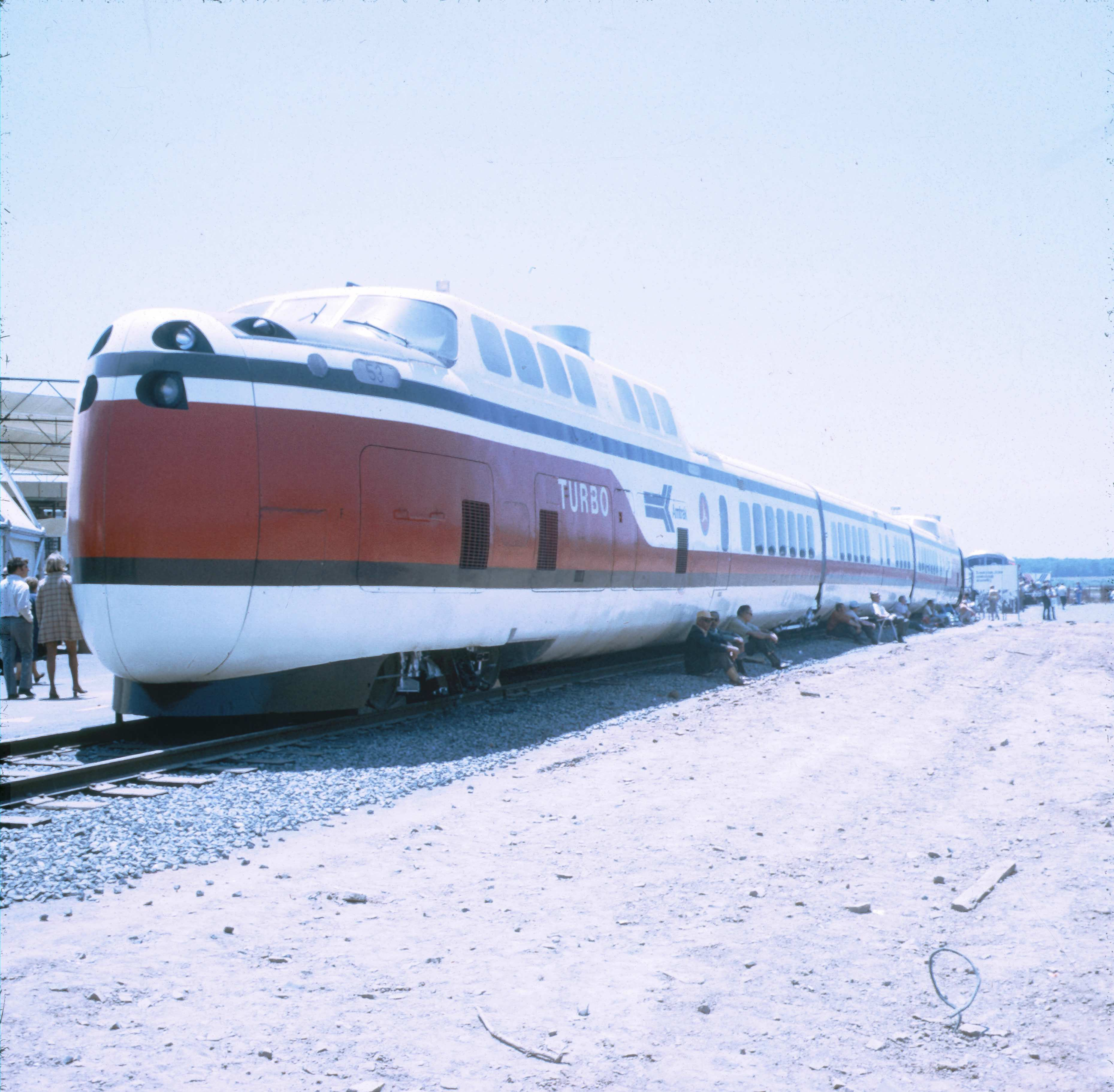 United Aircraft TurboTrain at Transpo '72